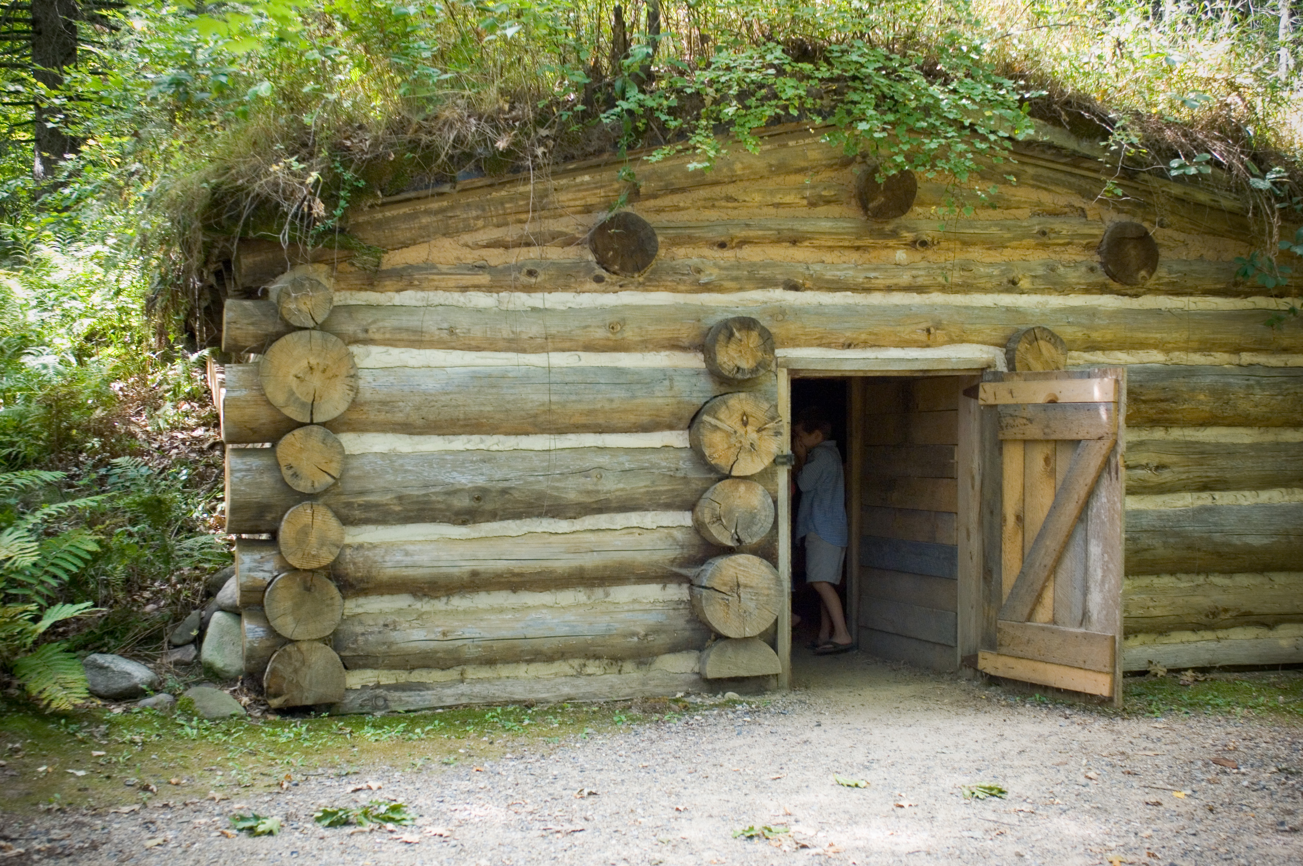 Sod roof at Forest History Center. This would be the root house not a cabin